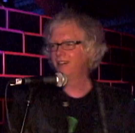 Don Fleming, performing with the Dripping Tap at Santos Party House NYC on April 21 2009